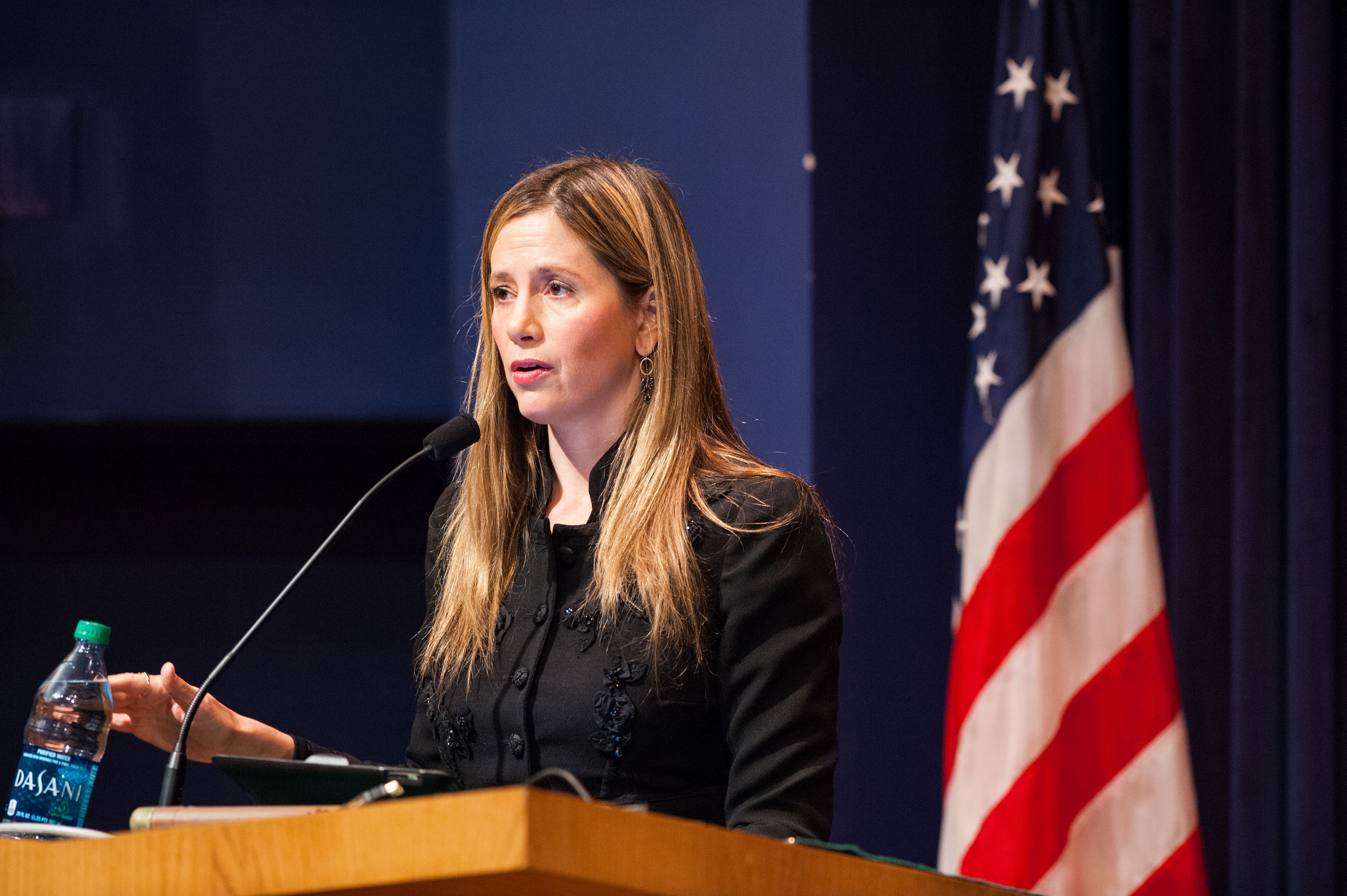 Mira Sorvino at the Anti-Human Trafficking Symposium: Transforming the Coalition, School of Foreign Service, Washington, DC, January 30, 2013